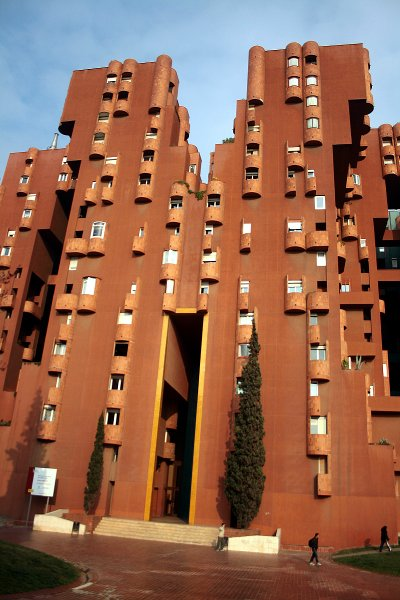 Walden 7 Building - Front View